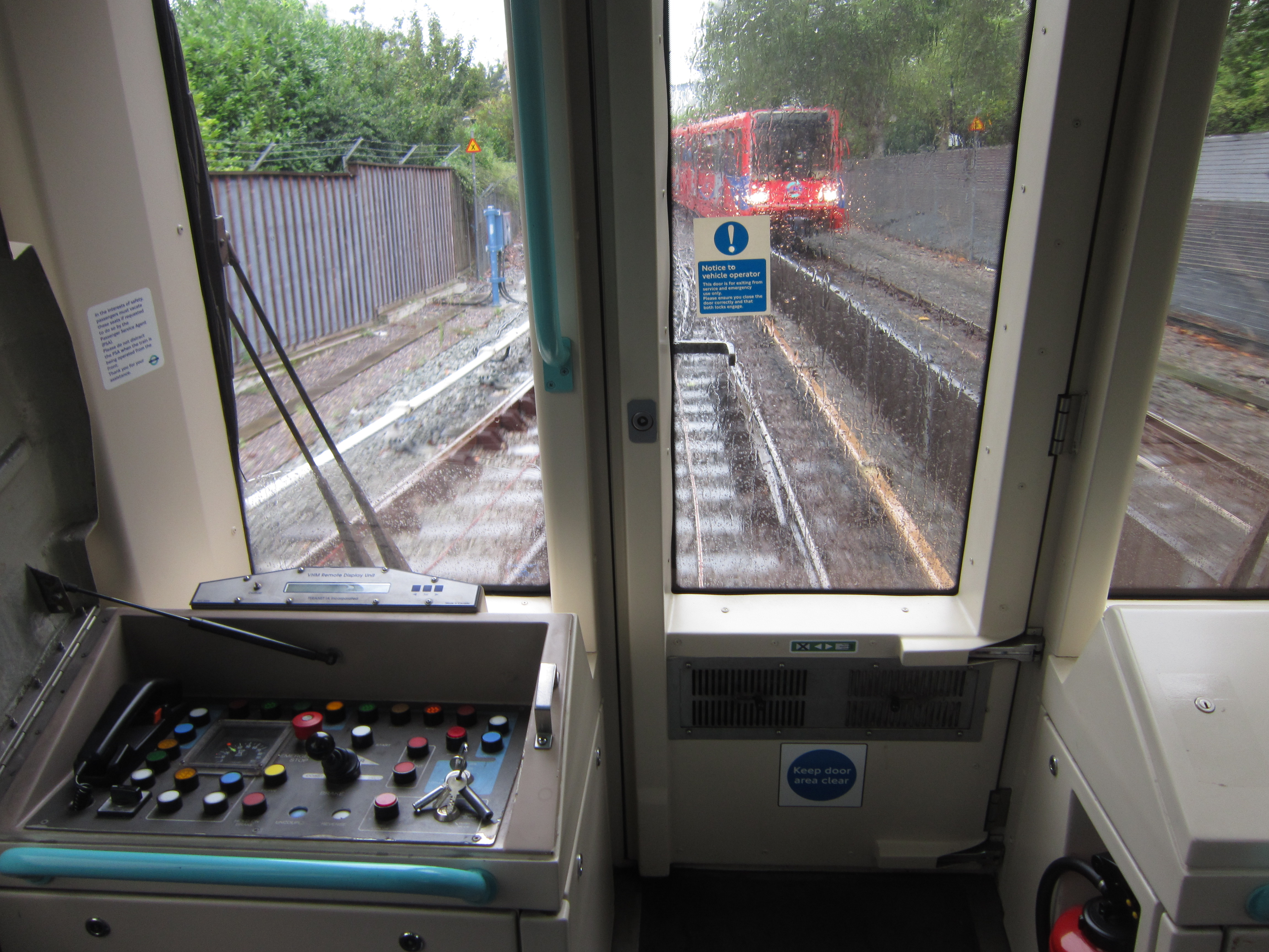 View from the front of Docklands Light Railway rolling stock B90, illustrating the closable control desk (normally locked) and the panoramic view available